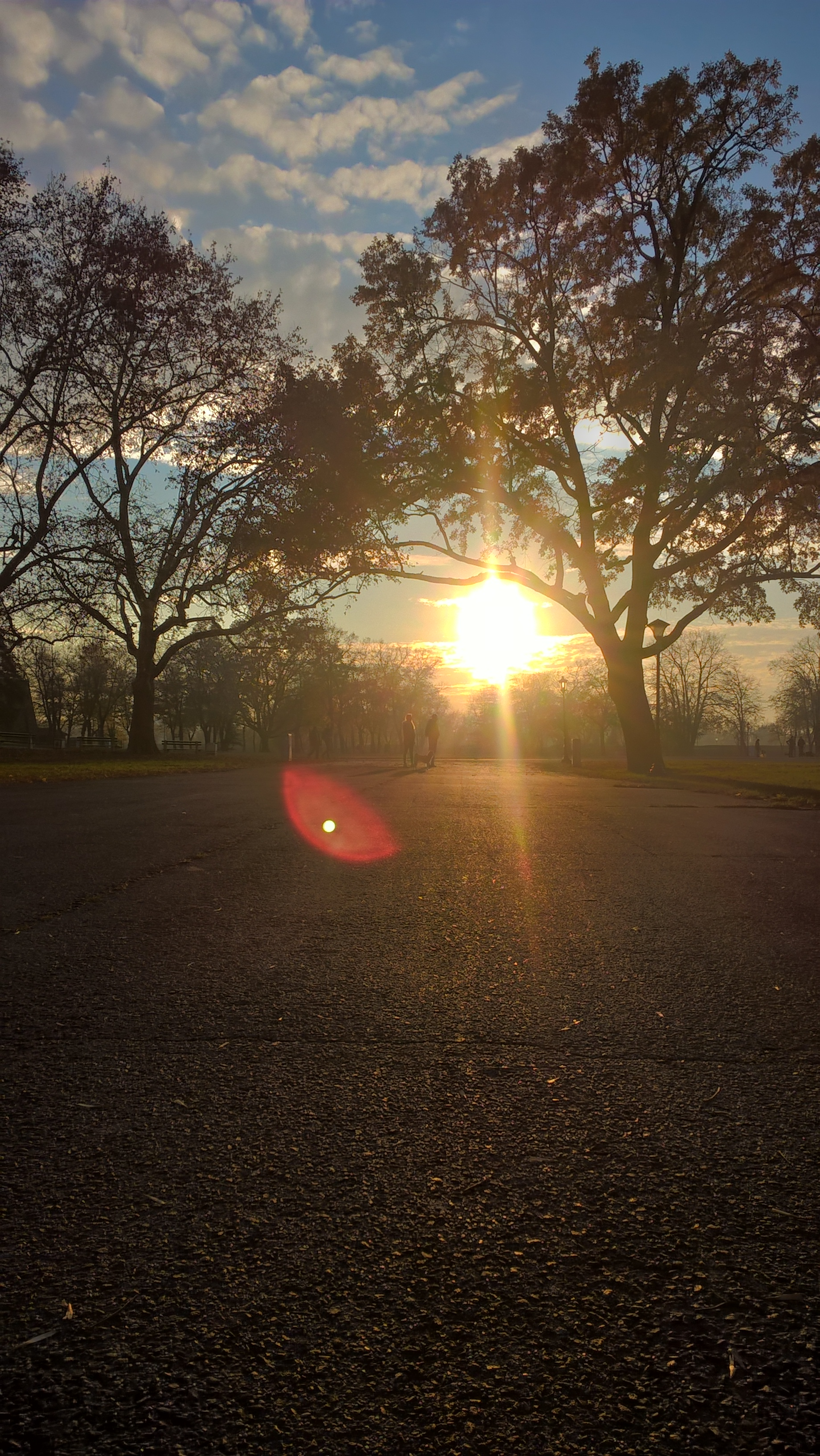 Dorćol(Donji Grad)